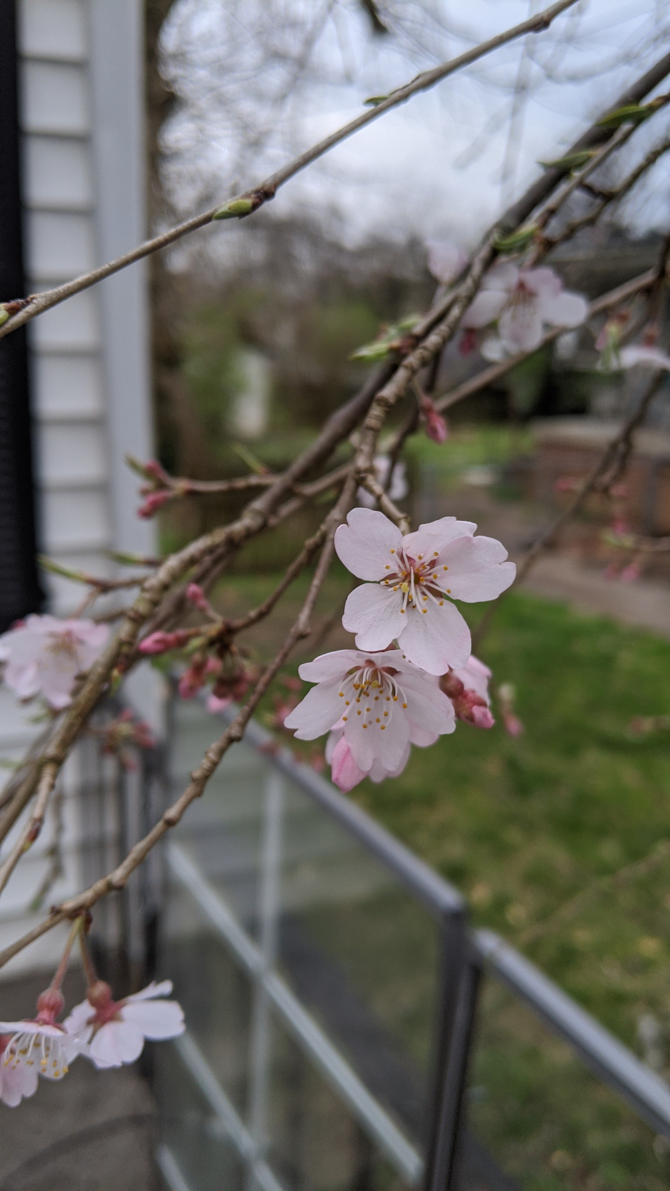 first spingtime blooms